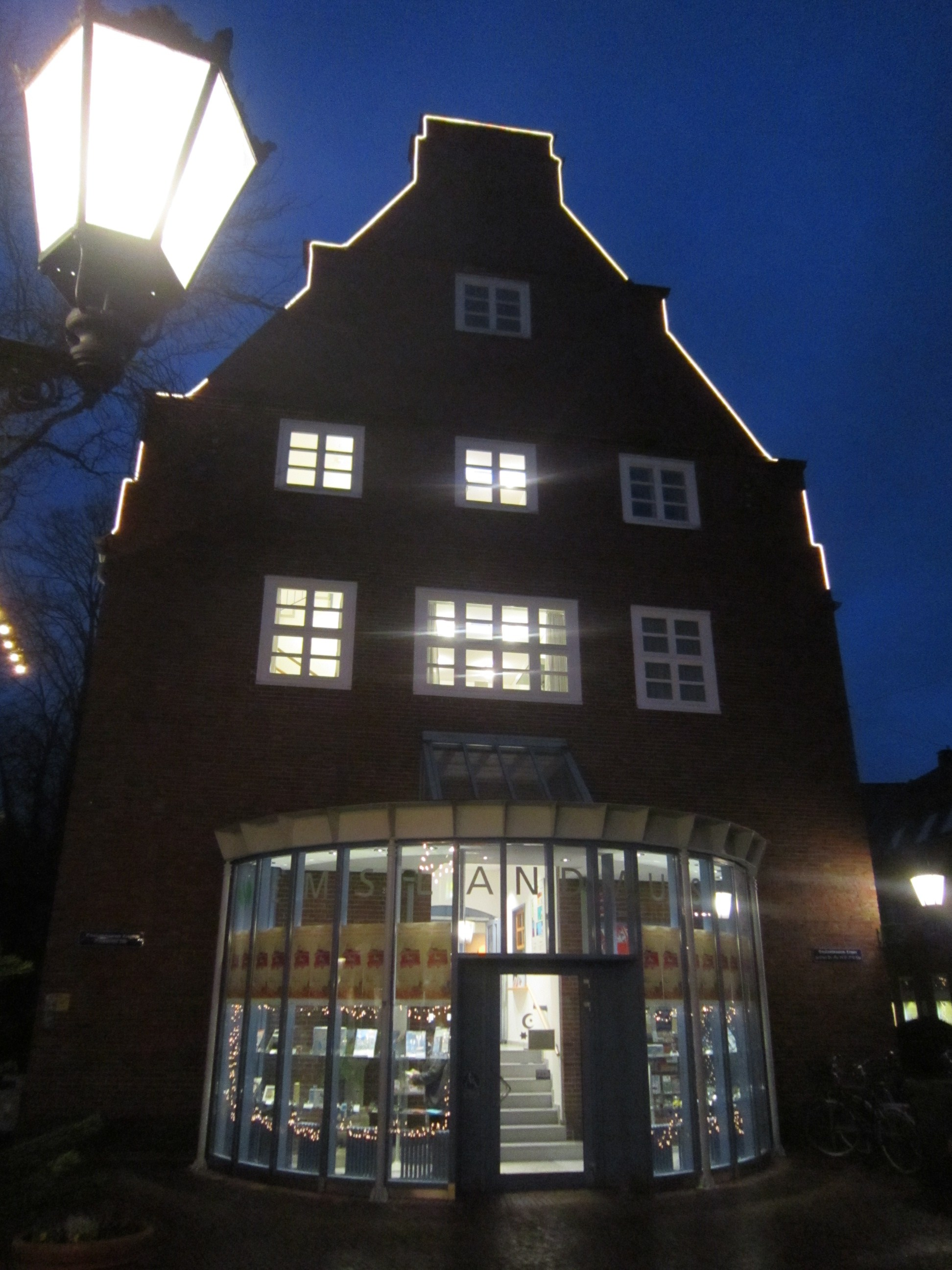 Emslandmuseum in Lingen (Ems)